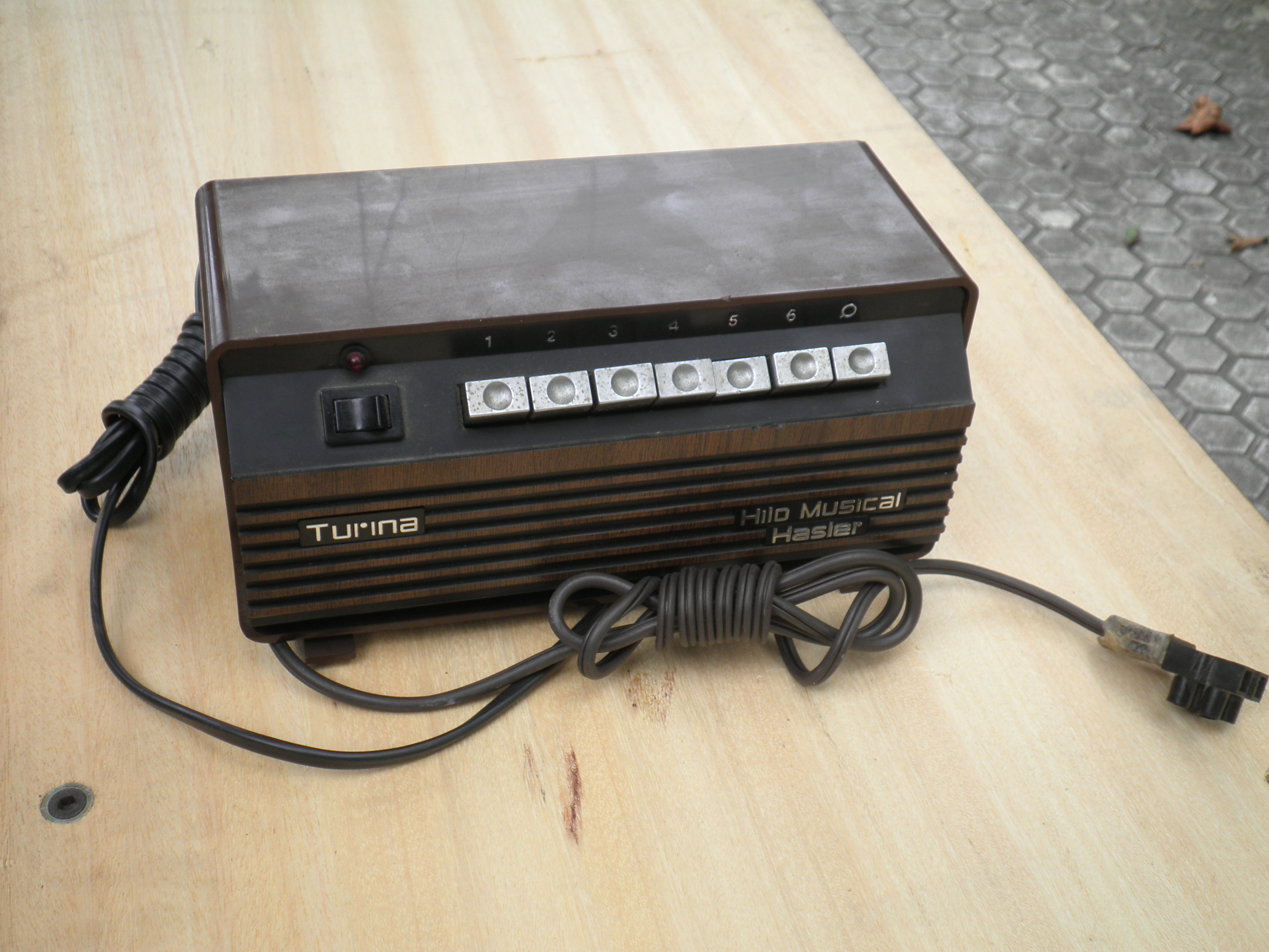 "Hilo musical" device.